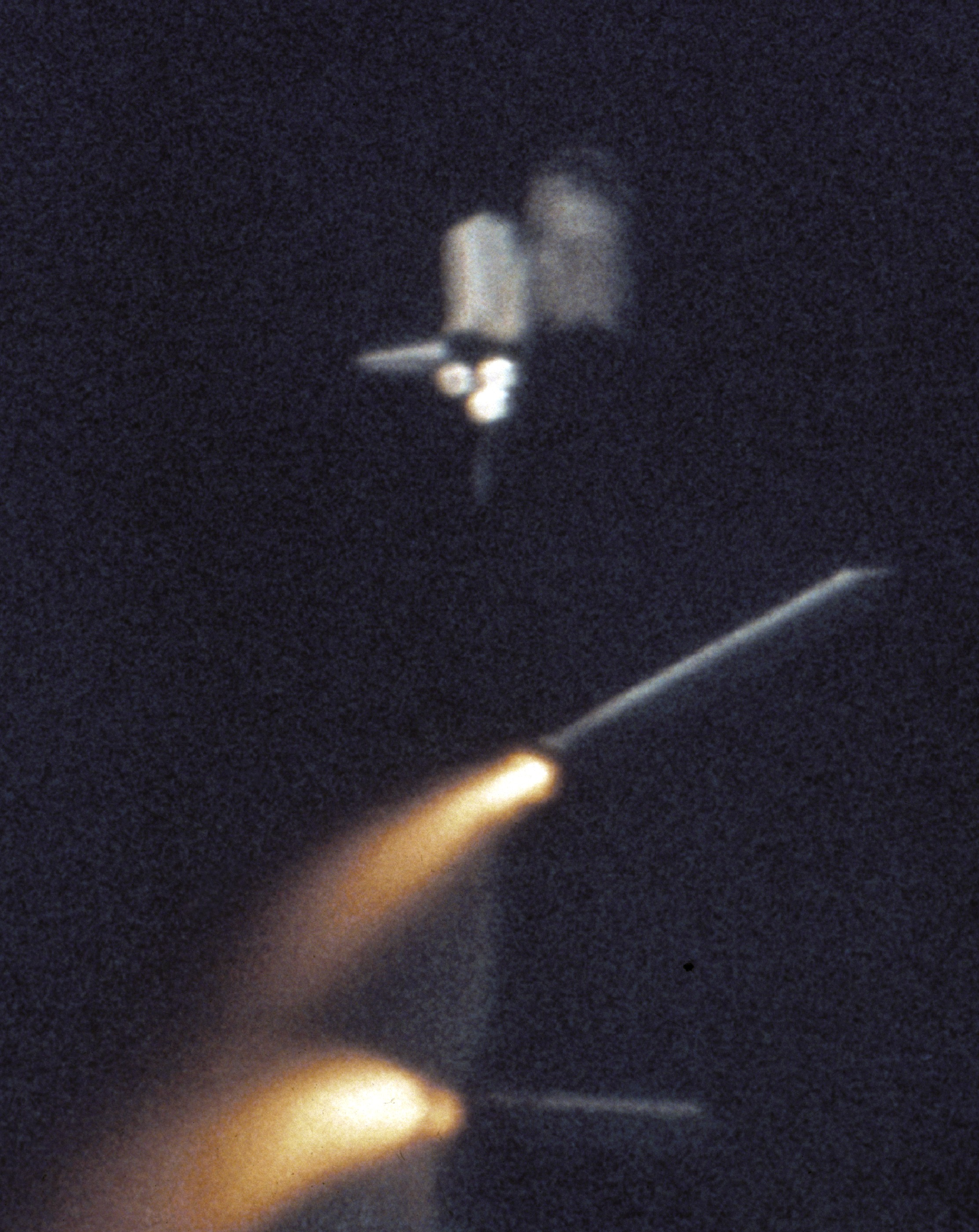 Solid Rocket Boosters separating from space shuttle.